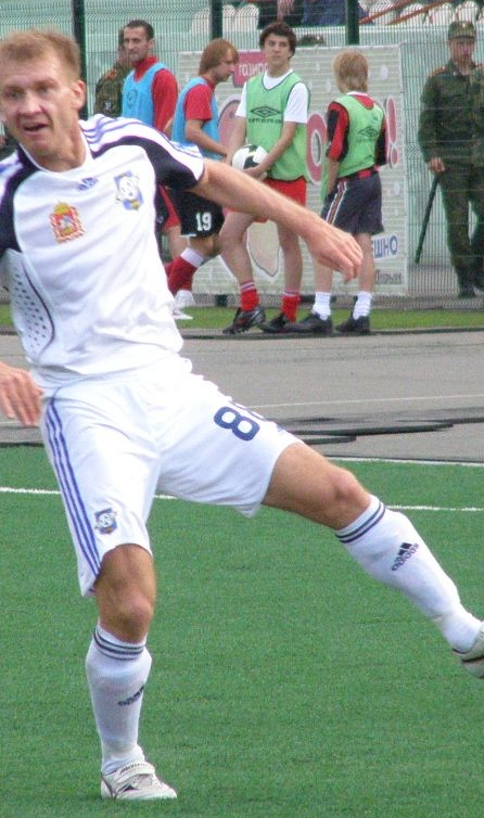 Alexei Ivanov in action for FC Saturn Ramenskoye